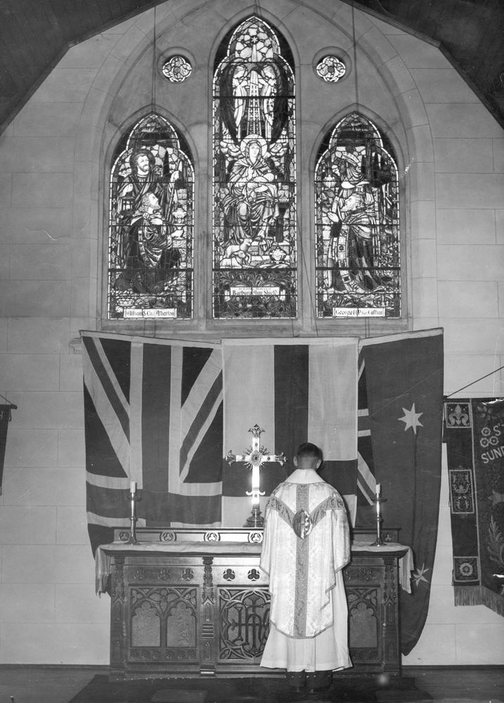 Photographer: Unidentified Location: Brisbane, Queensland, Australia Date: April 1952 Description: Archbishop of Brisbane, Dr. Halse, unveiled and dedicated a stained glass window in the east end of St. Thomas' Church of England. The window has been designed by Mr. W. Bustard. Known as 'The visit of the wise men' the window has three main lights and each one was dedicated to the memory of three late parishioners closely connected with the church: William Atherton, Barbara Ann Shield, and George Hubert Pears Caffyn. View this image at the State Library of Queensland: Information about State Library of Queensland’s collection